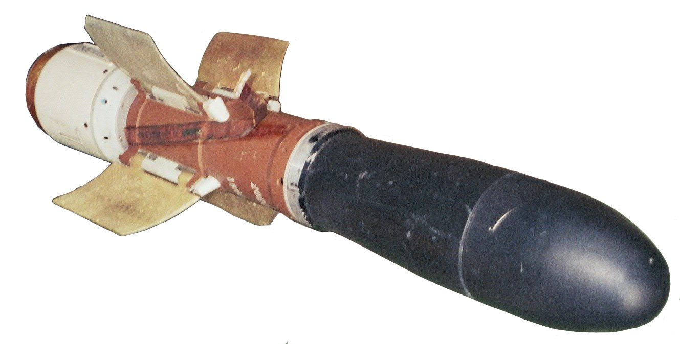 Nation/Defense days, Esplanade des Invalides, Paris, France, September 24-25, 2005